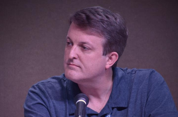 Tim Farley on a Skeptrack panel at Dragon*Con 2011. Taken September 4, 2011.